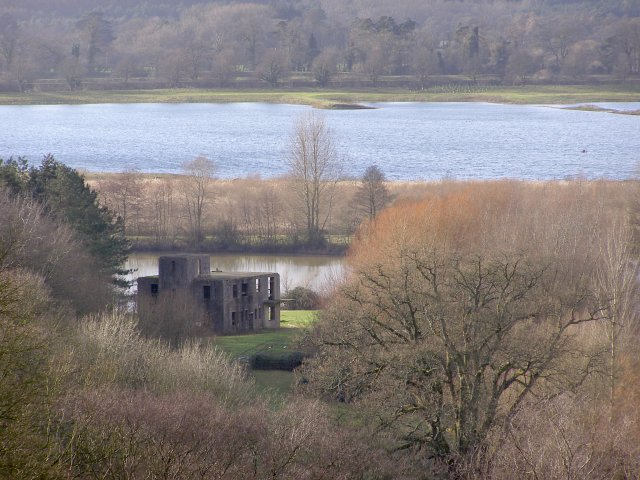 Mockbeggar Lakes and Ibsley Water from Ibsley Common, New Forest Looking down at Ibsley Water and Mockbeggar Lakes (flooded gravel workings) from the edge of Ibsley Common. The concrete building in front of one of the Mockbeggar Lakes was the control tower of the Second World War airfield of RAF Ibsley.